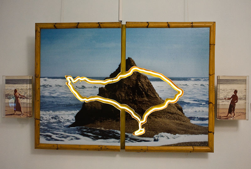 Woody van Amen Mata Hari 1978 foto, neonlicht, bamboe, perspex foto van de Matterhorn met neon bamboelijst met aan de zijkanten foto's achter perspex. Woody van Amen Mata Hari 1978 picture, neon light, bamboo, perspex photo of the Matterhorn with bamboo neon frame with photos at the sides behind perspex.